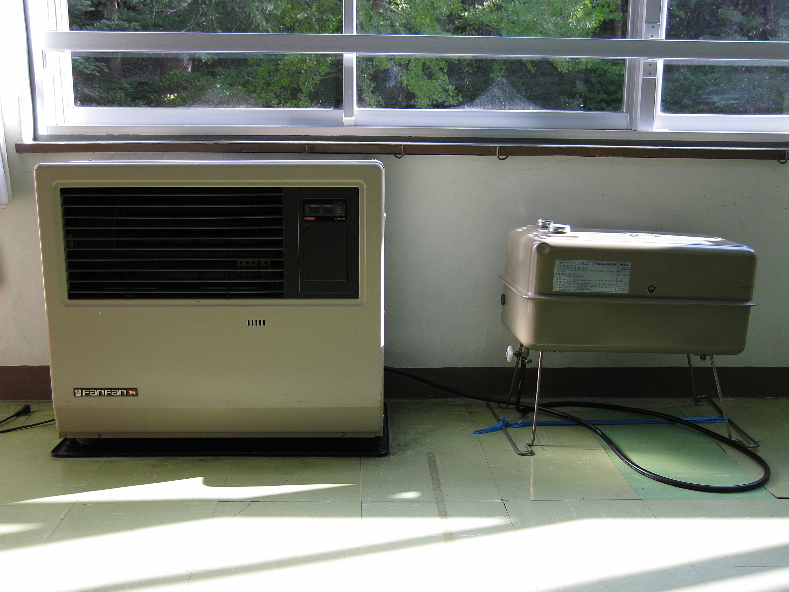 Japanese kerosene heater and attached kerosene tank. Kawauchi Elementary School. Kawauchi, Chokai, Yurihonjo, Akita, Japan.